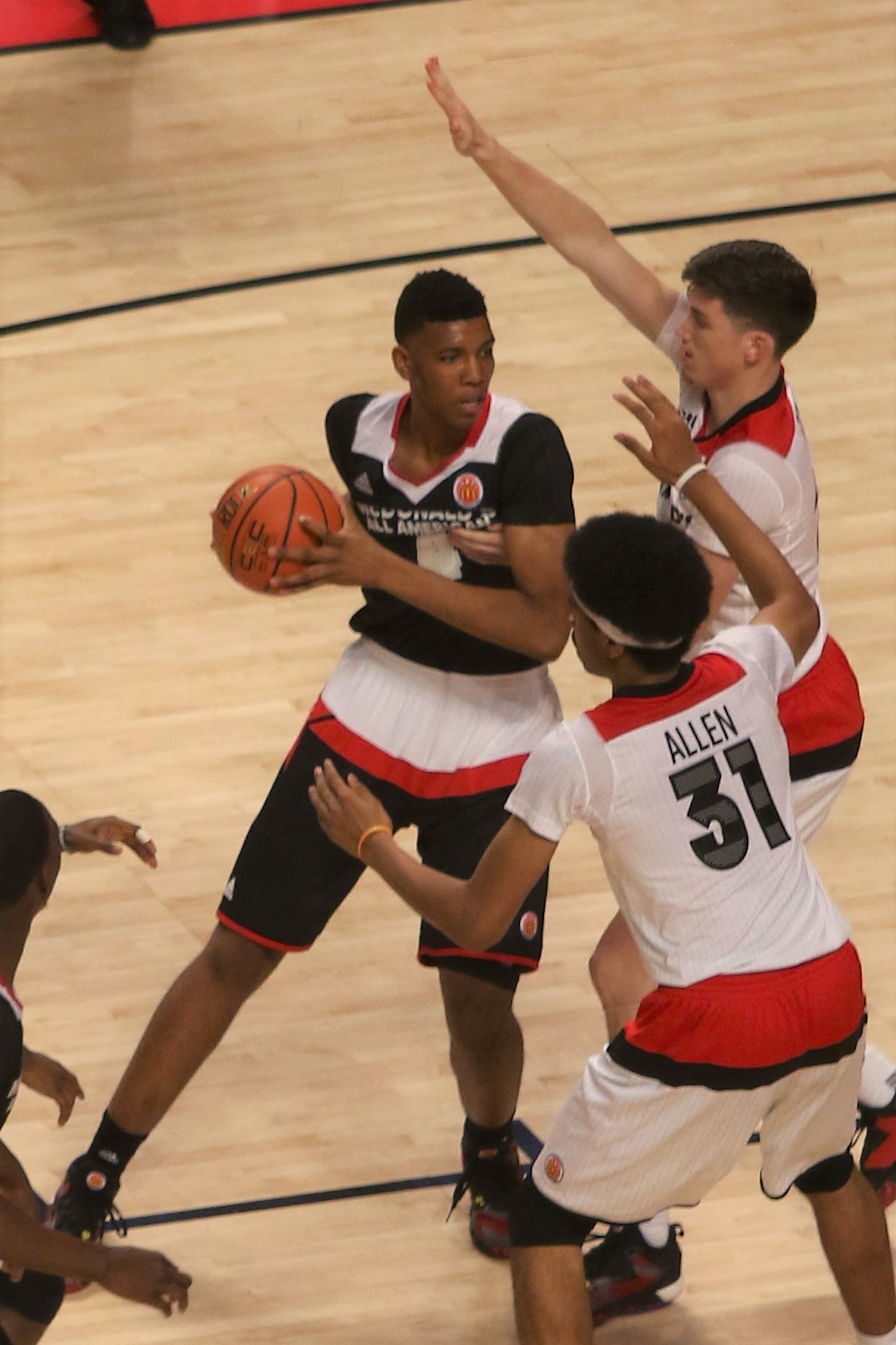 Tony Bradley Jr. attacks T. J. Leaf and Jarrett Allen (#31) at the w:2016 McDonald's All-American Boys Game